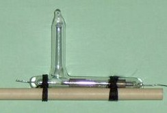 A coherer, a primitive radio wave detector used in the first radio receivers around the turn of the 20th century. This type was developed by Guglielmo Marconi in the late 1890s. It consists of a tube or capsule containing two electrodes spaced a small distance apart, with metal filings in the space between them. When a radio frequency signal is applied to the device, the initial high resistance of the filings reduces, allowing an electric current to flow through it.